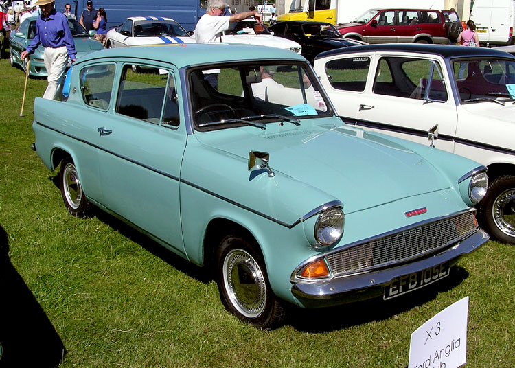 1967 Ford Anglia 105E at Bristol Car Show, The Downs, Bristol, England.